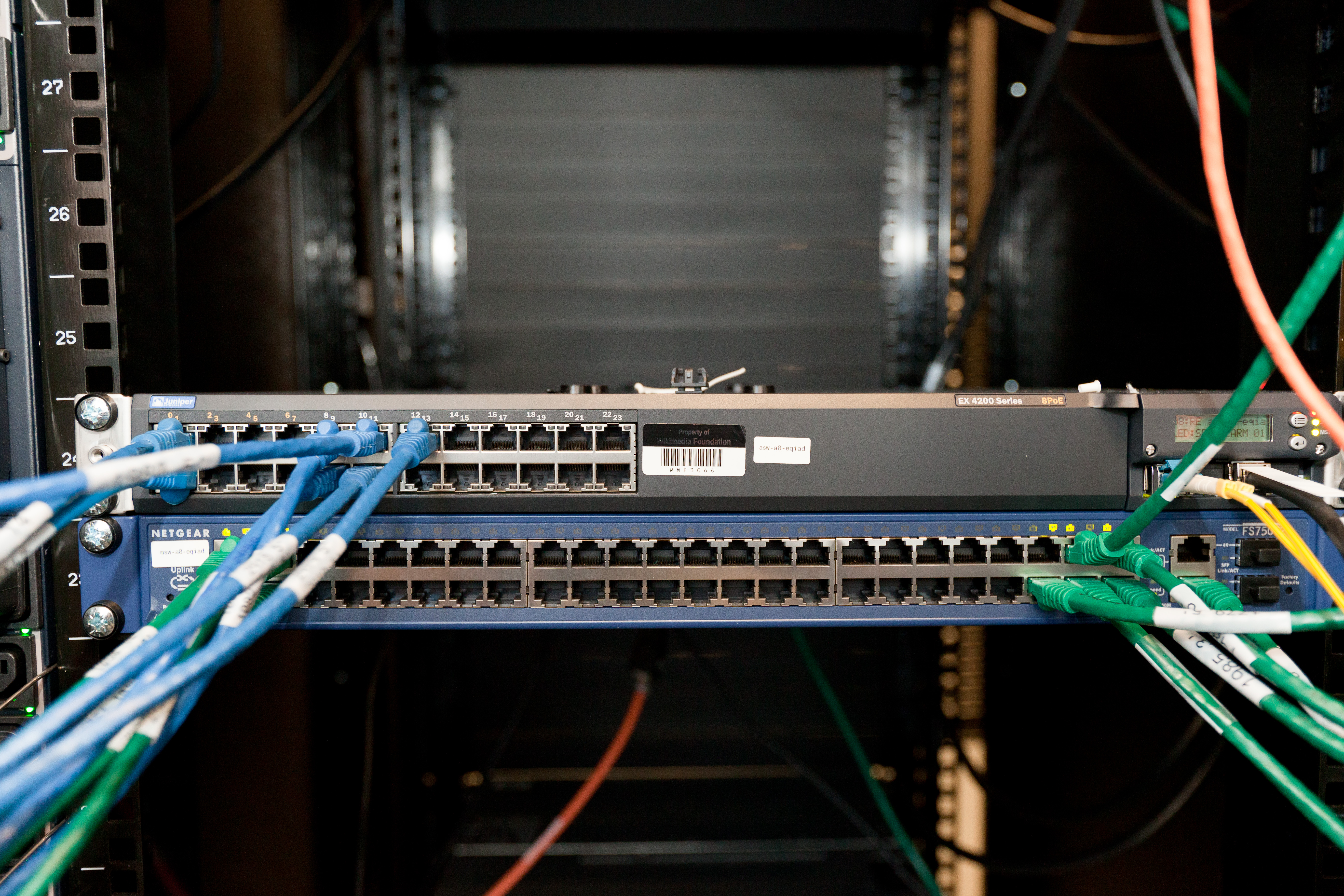 Wikimedia Servers